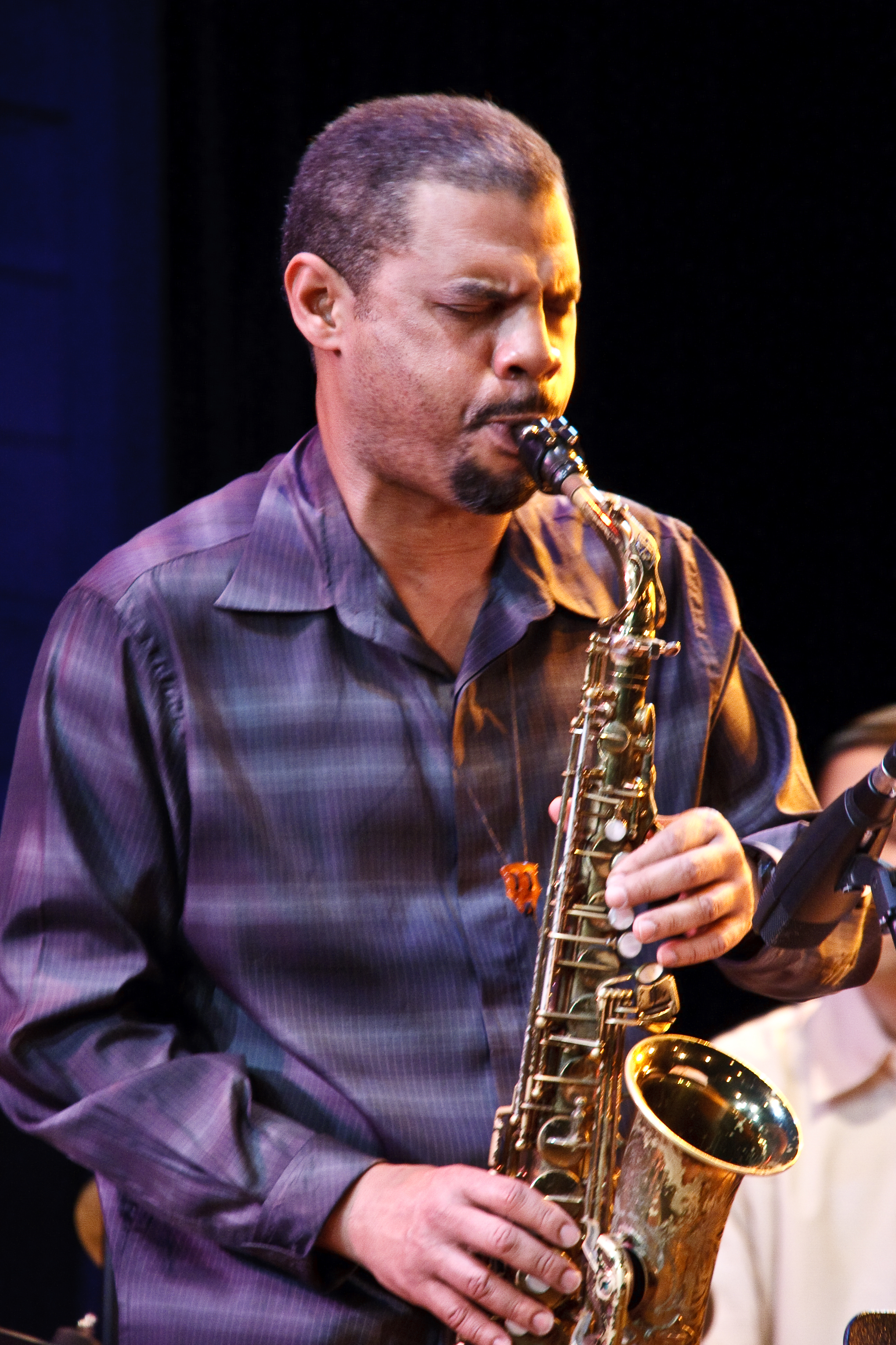 Steve Wilson, performs with the Steve Wilson Quartet, with Adam Cruz, (d), Bruce Barth (p), and Michael Bowie (b). At Live Arts, Charlottesville.